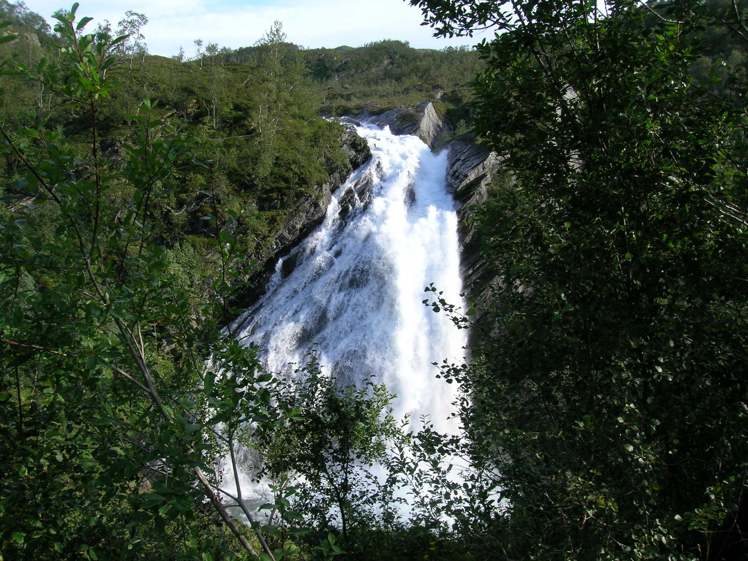 Kleivforsen in Meljorden in Rødøy municipality, in the county of Nordland, Norway, Photo 1 September, 2005 with a Nikon Coolpix 5600 5,1 Megapixel camera.